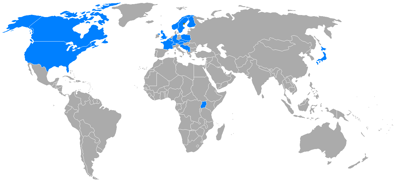 Countries which participated in the 1976 Winter Paralympics, derived from blank world map. Yellow square is host city (Örnsköldsvik).